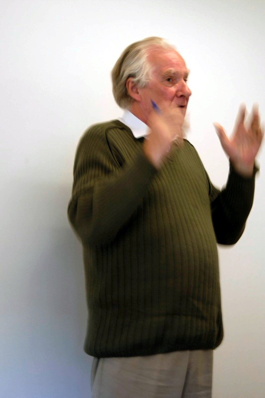 Alain Badiou (born 17 January 1937 in Rabat, Morocco) is a prominent French philosopher, formerly chair of philosophy at the École Normale Supérieure (ENS)